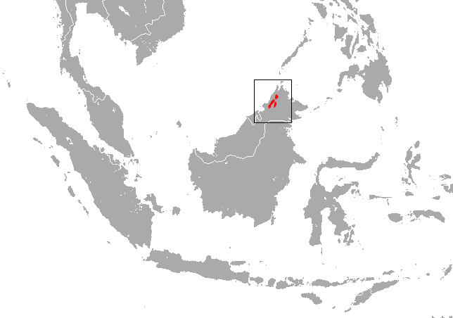 Bornean Water Shrew (Chimarrogale phaeura) range